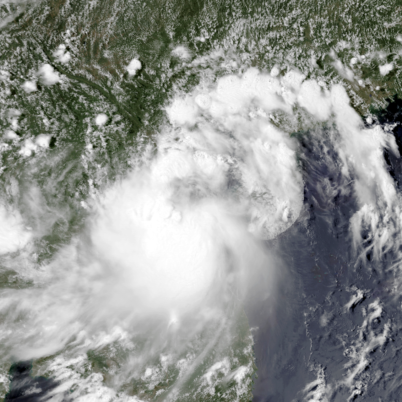 Tropical Storm Mangkhut on August 7, 2013